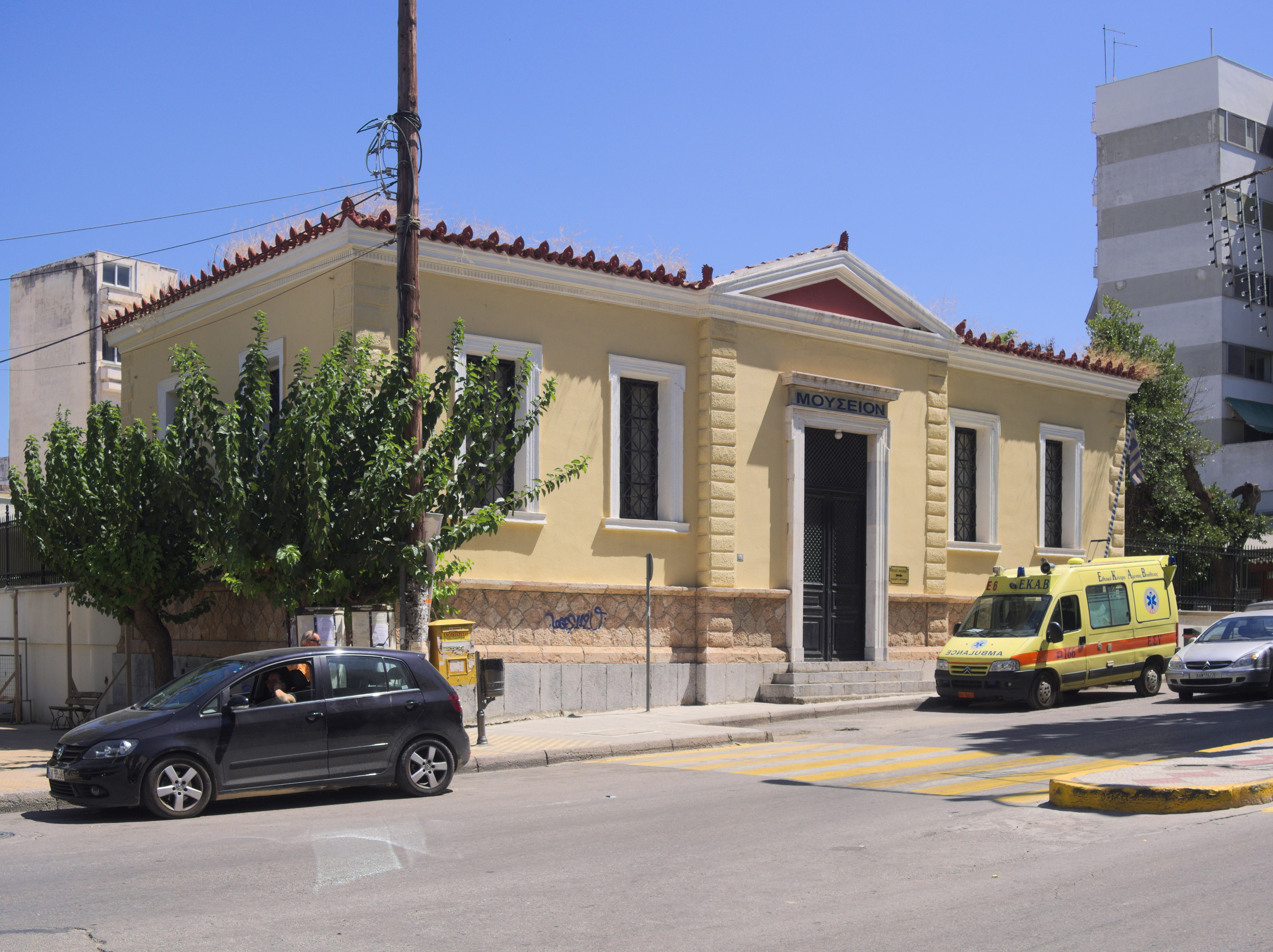 View of the building of the Archaeological museum of Chalkida.